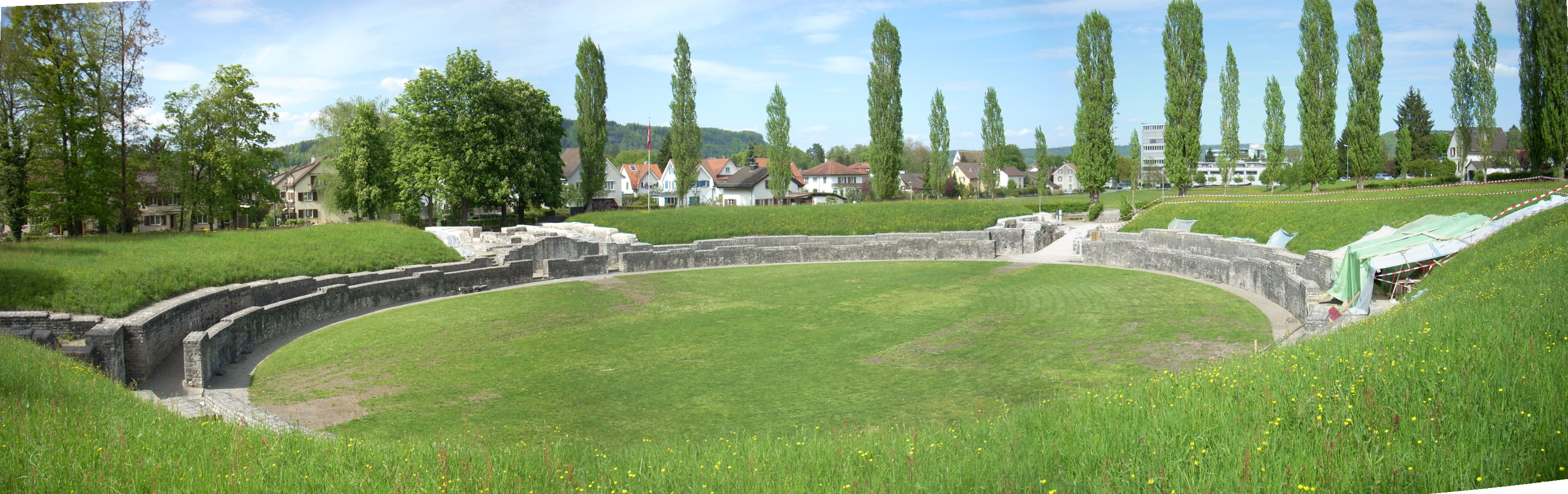 The Roman amphitheatre of Vindonissa, now Windisch, Switzerland